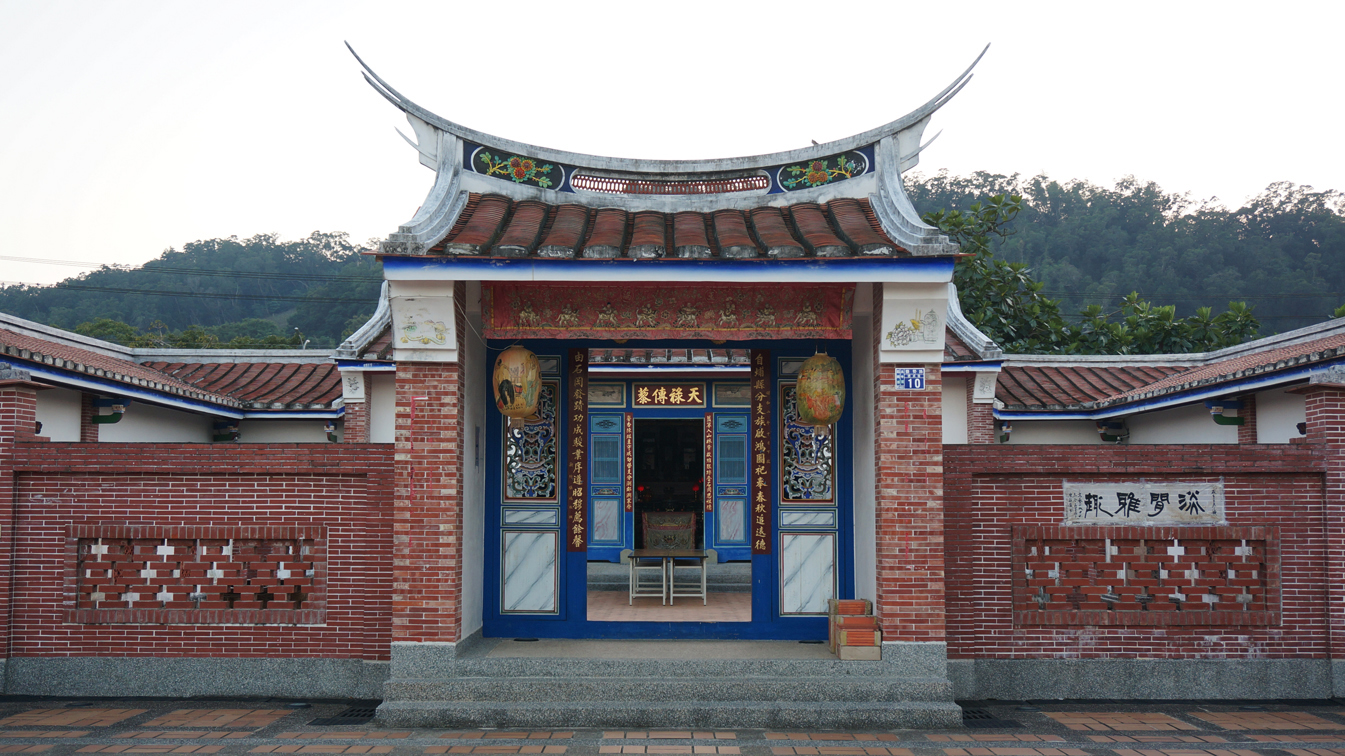 Tuniu Hakka Cultural Museum中文（台灣）: 土牛客家文物館